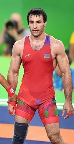 RIO DE JANEIRO (Tasnim) – Saman Tahmasebi. Men's Greco-Roman 85 kg.